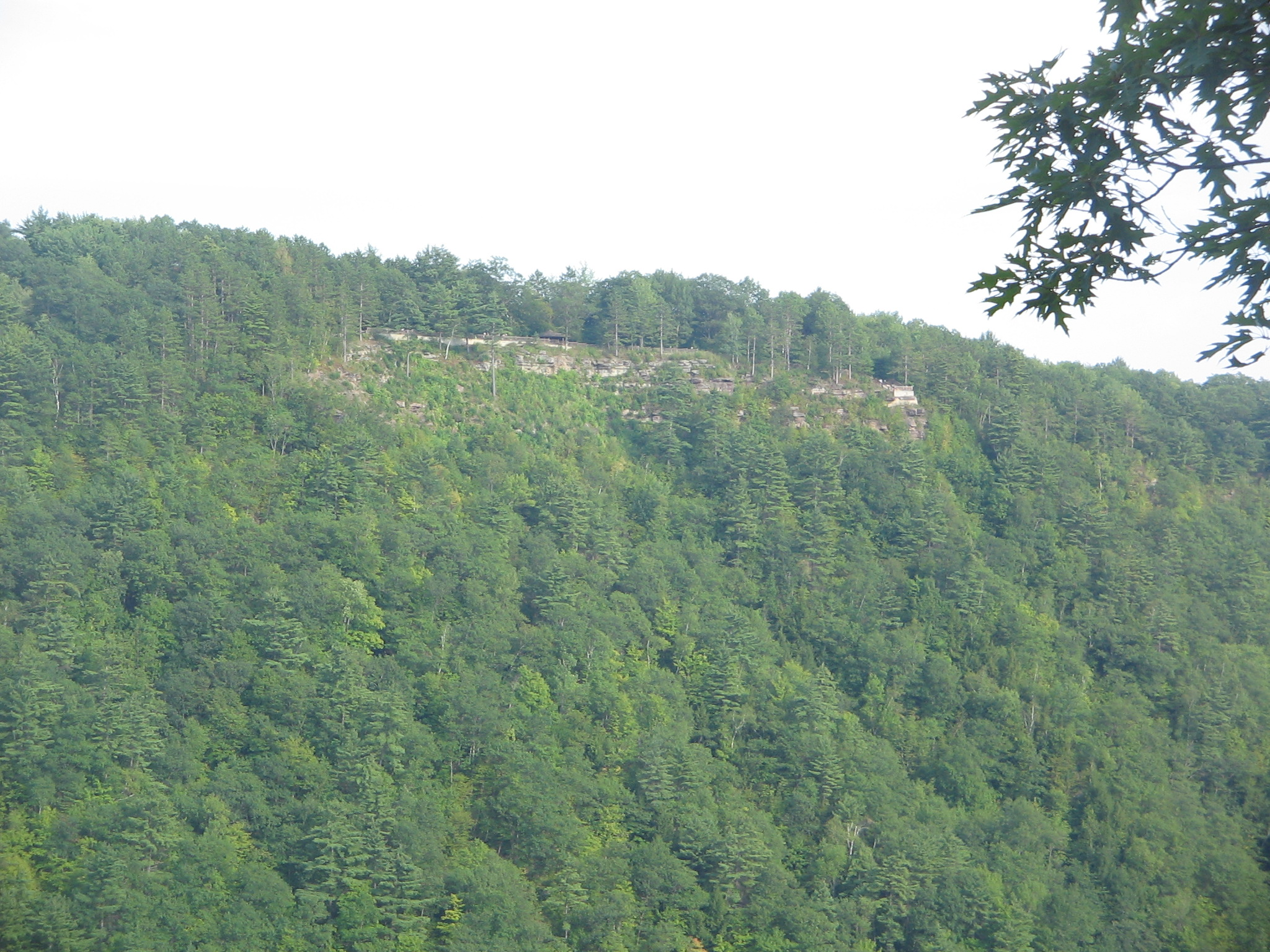 View south of the rock outcrop and Leonard Harrison State Park and the Pine Creek Gorge from Colton Point State Park in Shippen Township, Tioga County, Pennsylvania, United States. This is taken from the fifth overlook after entering the park.